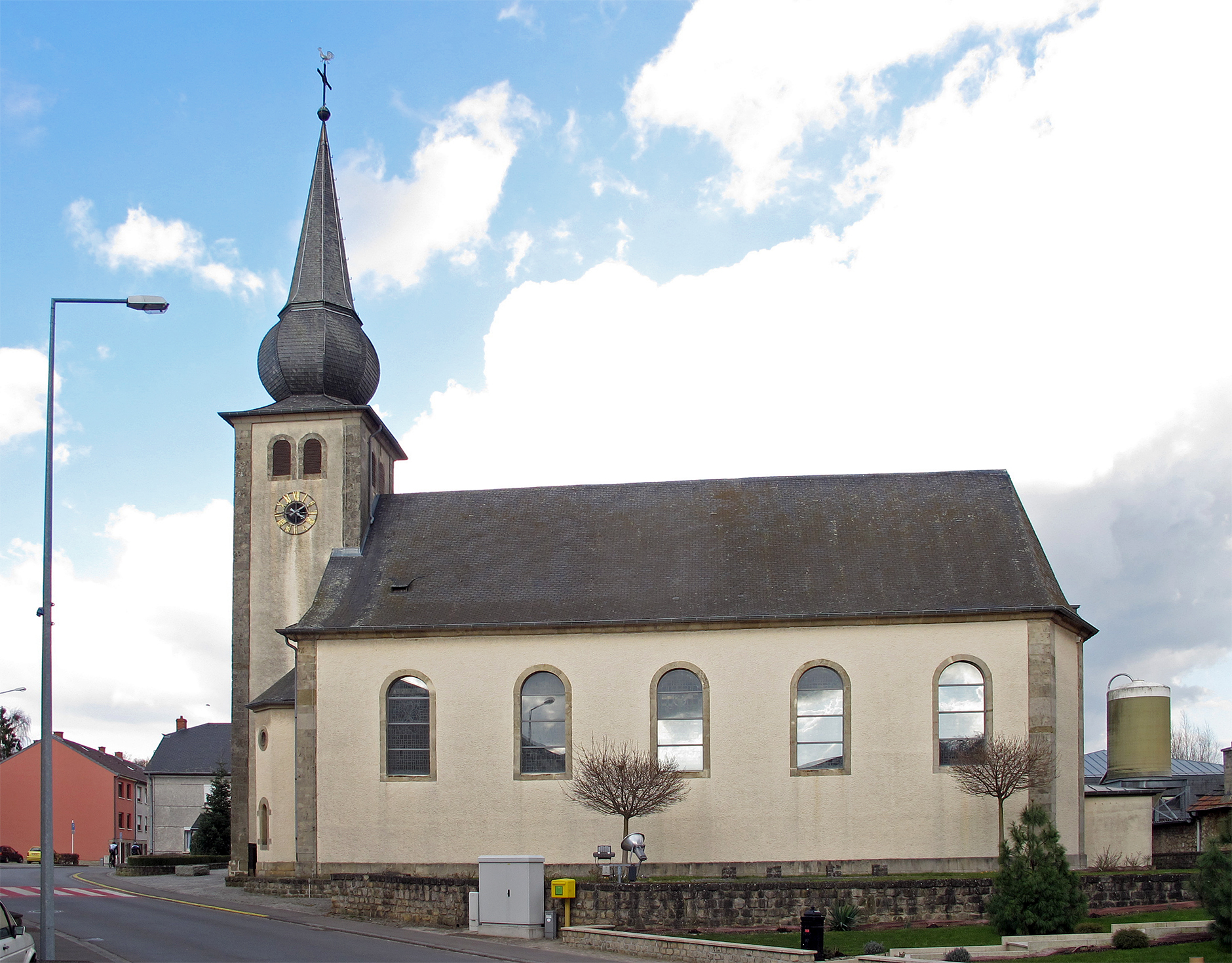 Church of Moutfort, Luxembourg